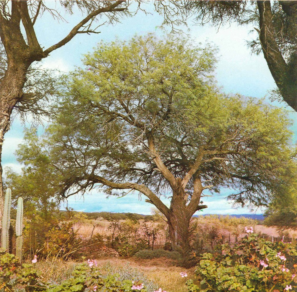 Prosopis alba is a South American tree species that inhabits the center part of Argentina, the Gran Chaco ecoregion and part of the Argentine Mesopotamia. It is known as algarrobo blanco in Spanish.